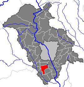 This map shows the area of the Gemeinde (municipality) Unterpremstätten in the Bezirk (district) Graz-Umgebung, Styria, Austria.